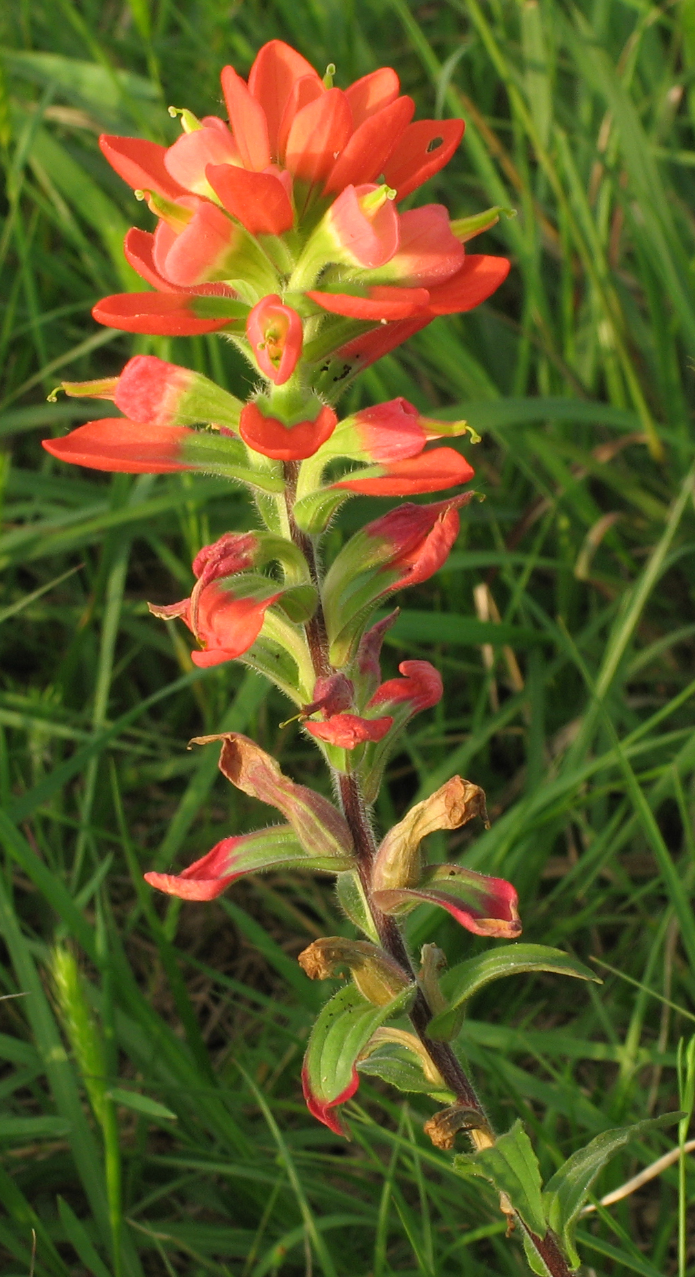 Castilleja indivisa (Texas Paintbrush) growing in Houston, Texas. Cropped version.